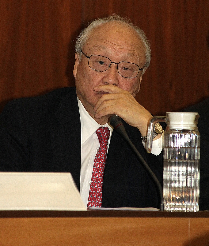 Shunji Yanai (born 1937), President of the International Tribunal for the Law of the Sea since 2011